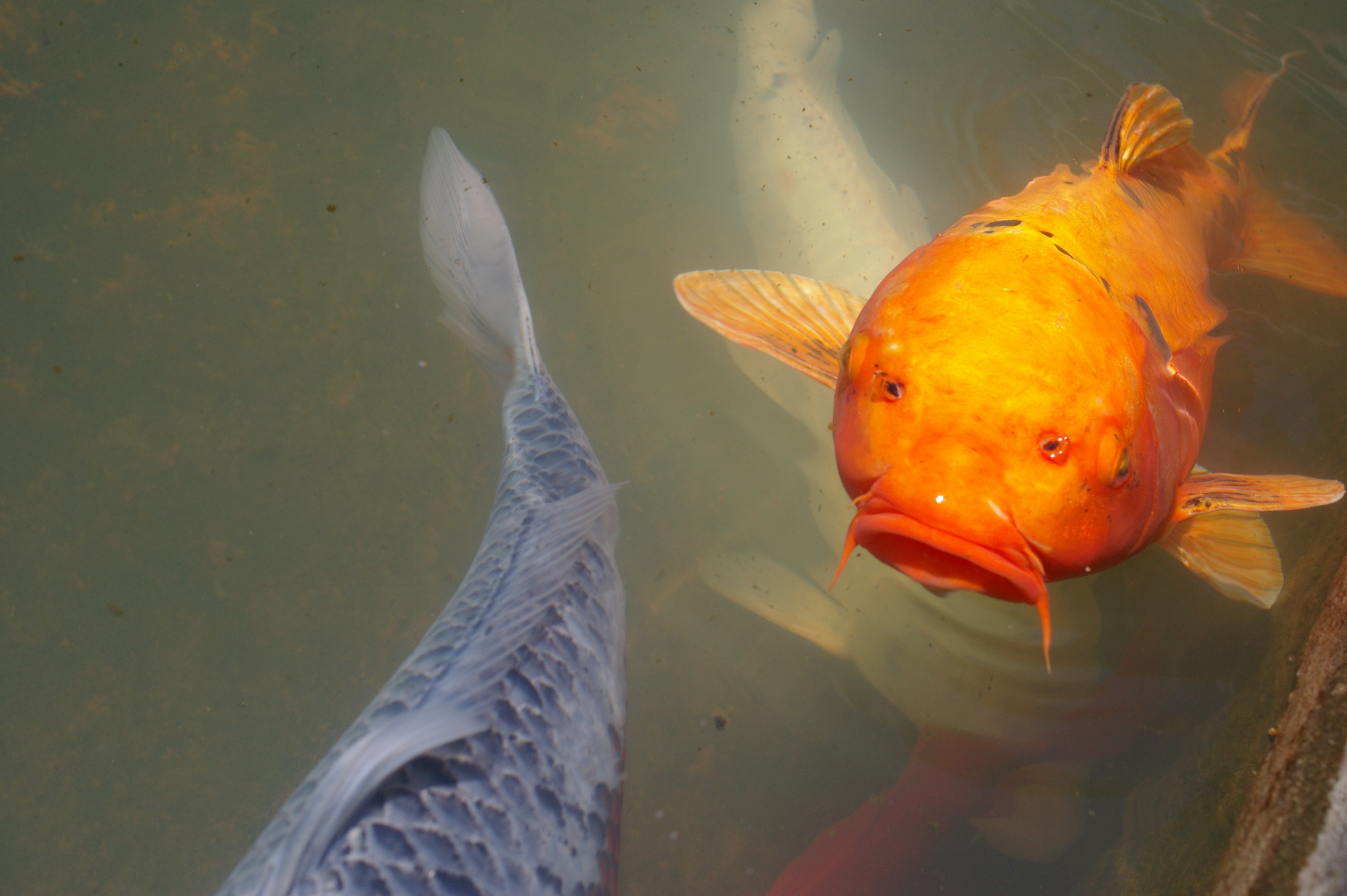 When I started at UCSC, the big scandal on campus was that a group of frat kids caught one of the very large koi fish at Porter college and cooked it as a prank for a show on MTV.